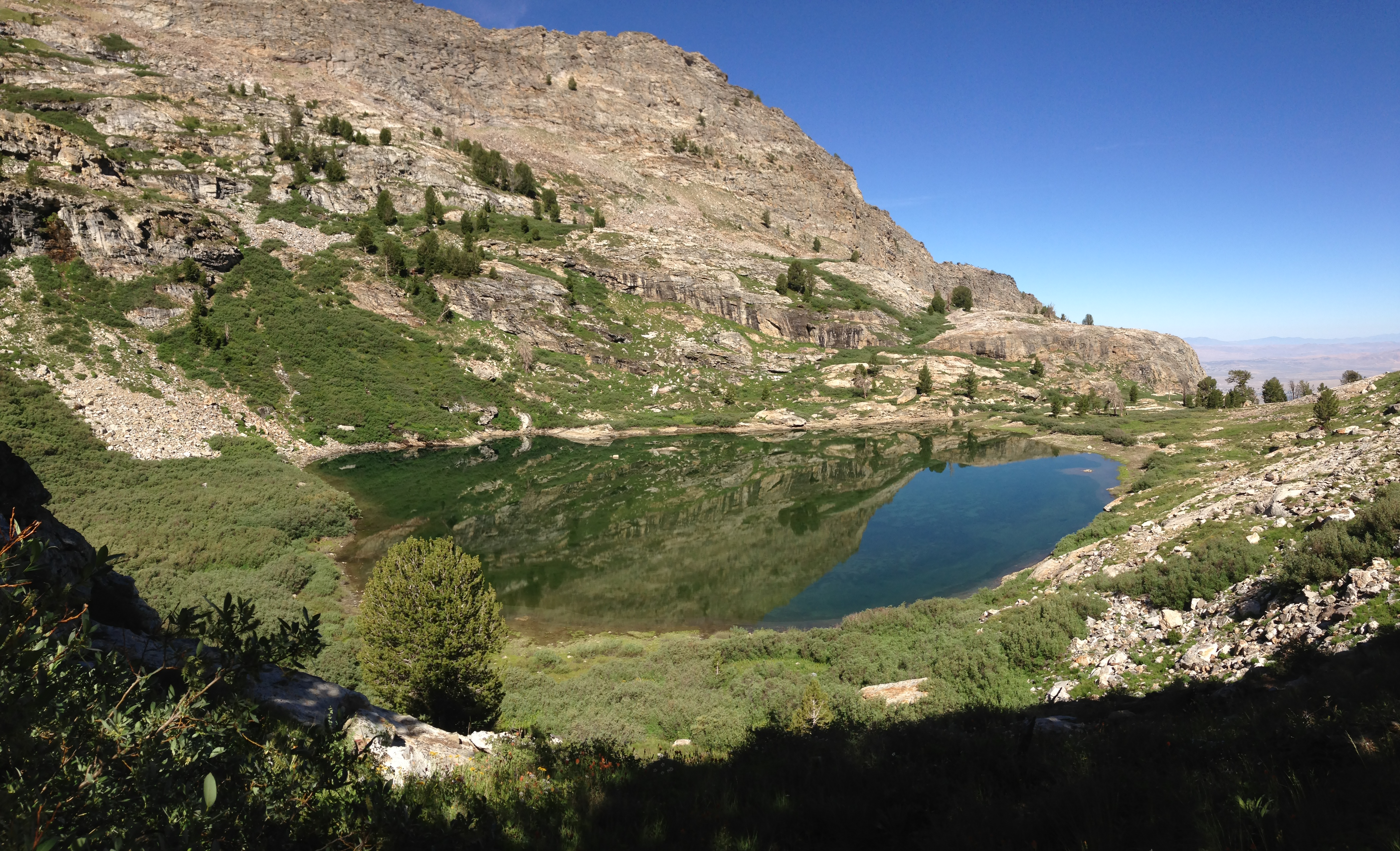 View west across Griswold Lake from the trail to Ruby Dome east of the lake